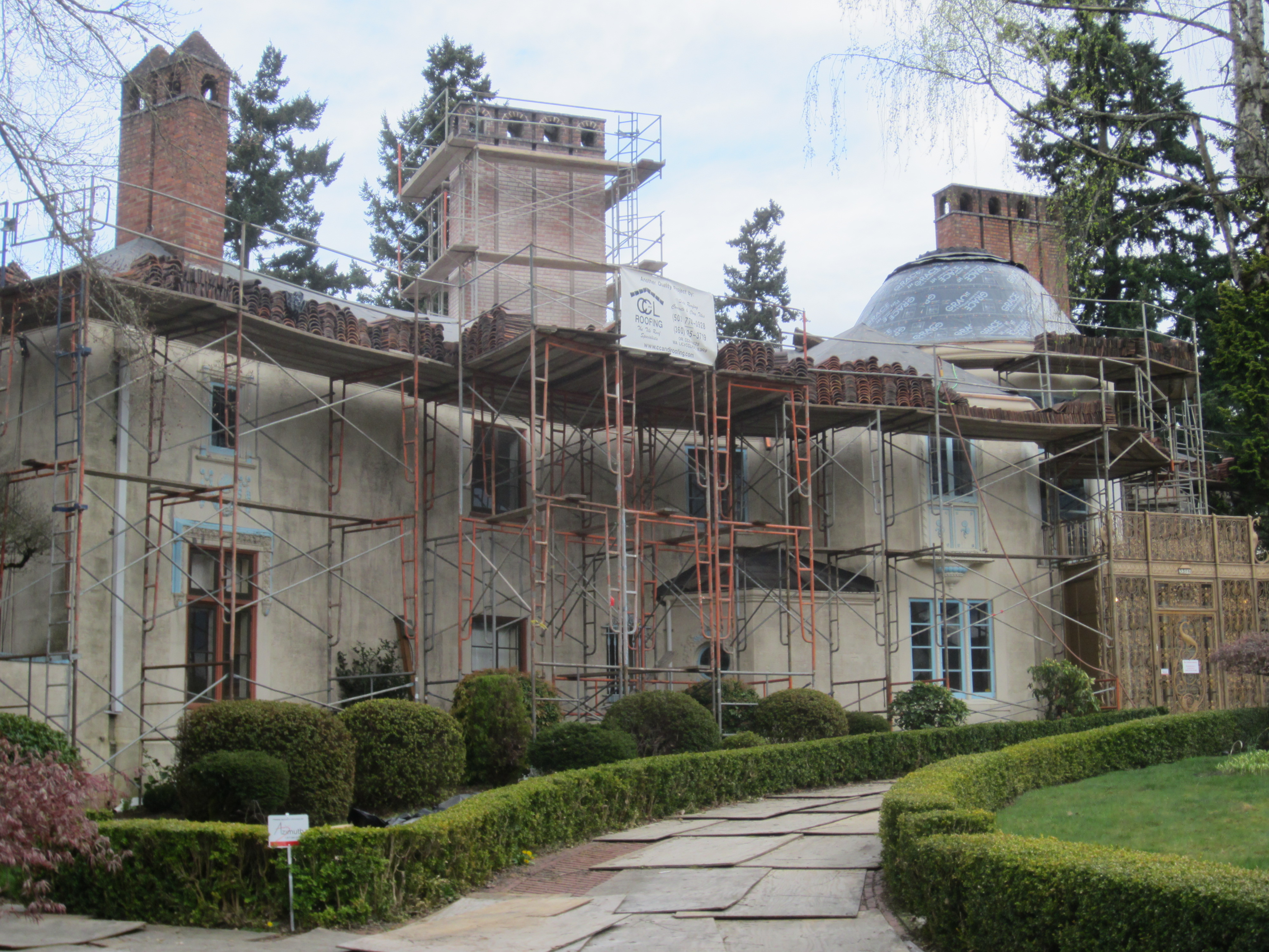 Bitar Mansion in southeast Portland, Oregon in April 2012